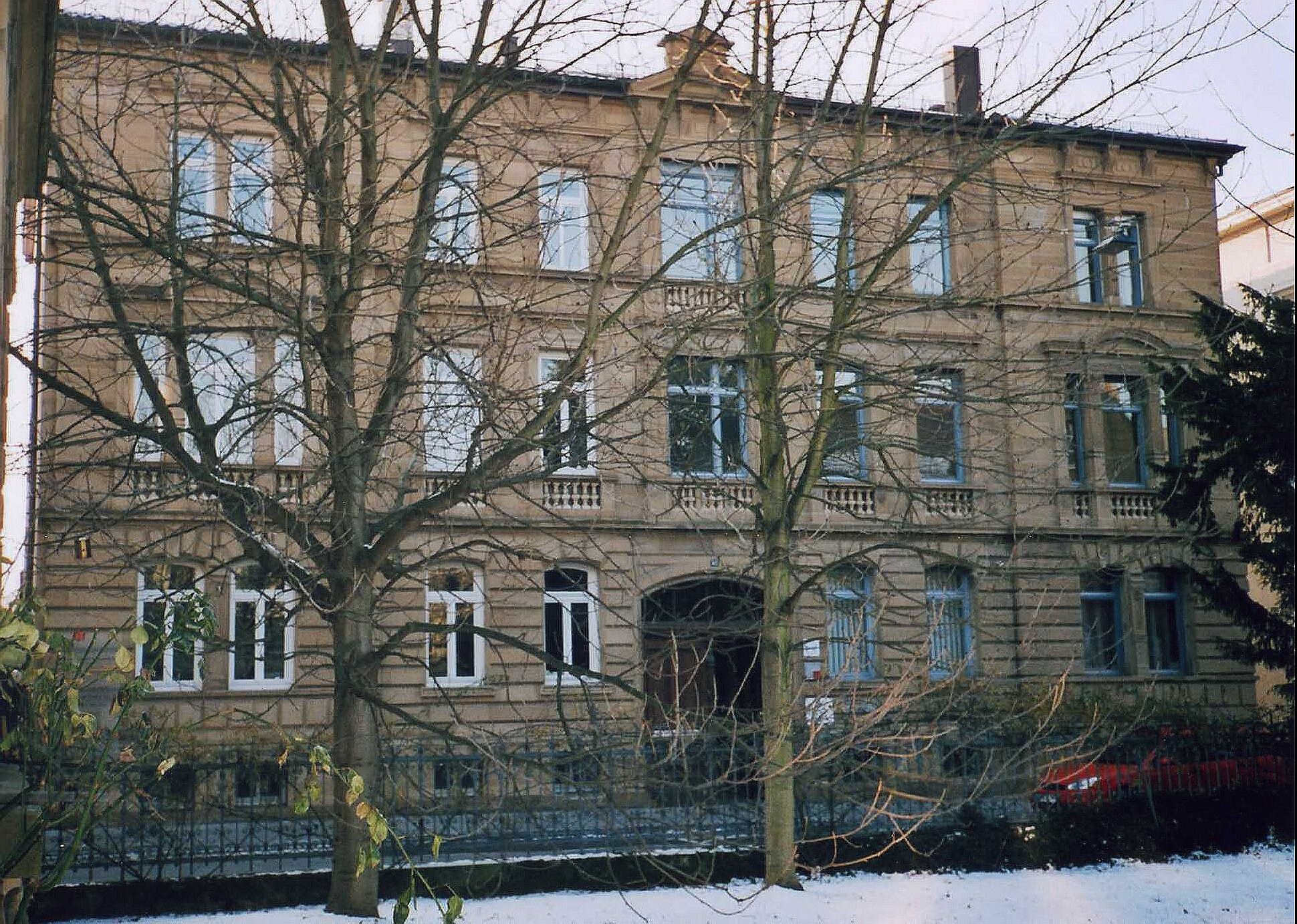 Heilbronn